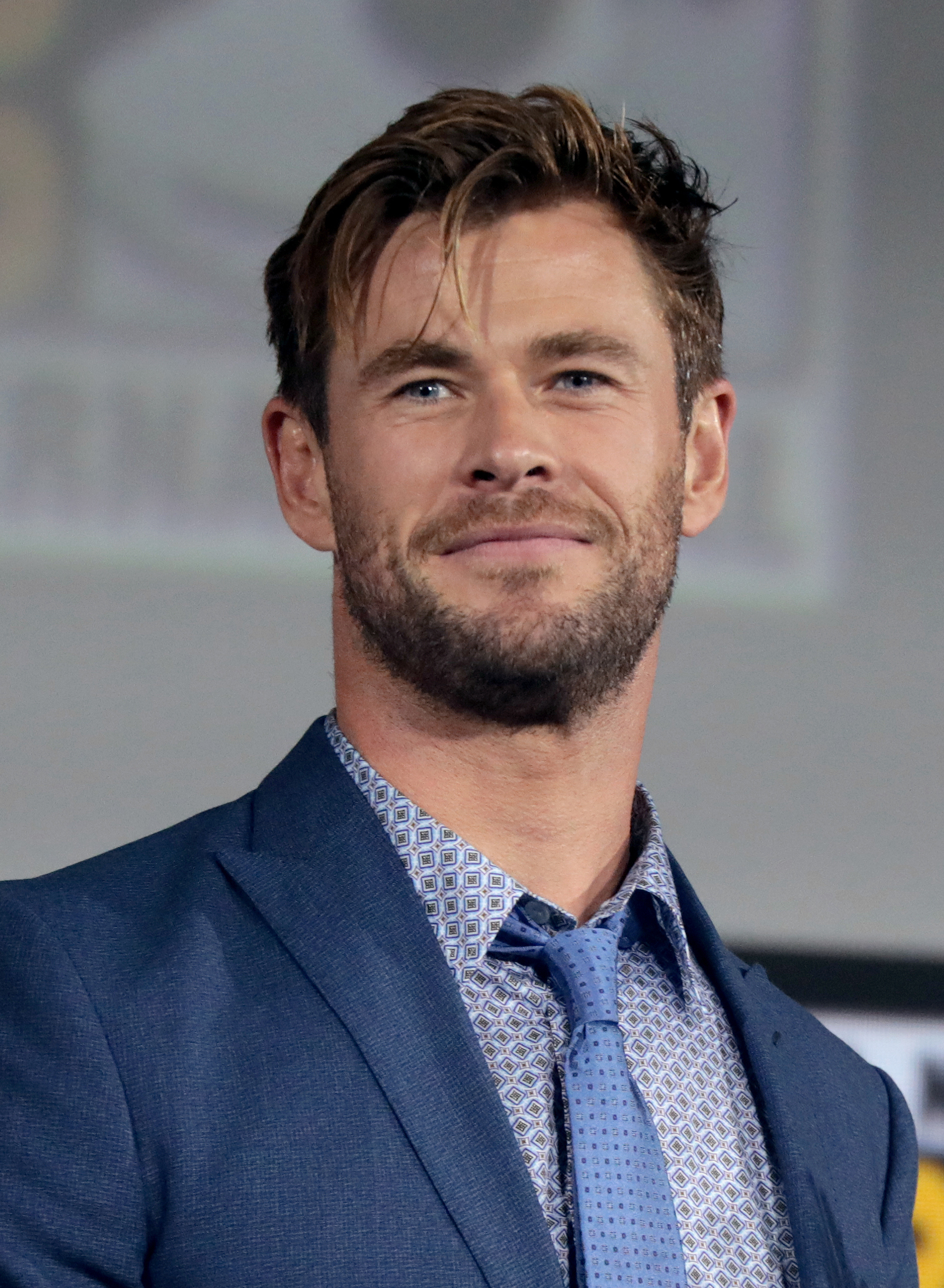 Chris Hemsworth speaking at the 2019 San Diego Comic-Con International in San Diego, California.